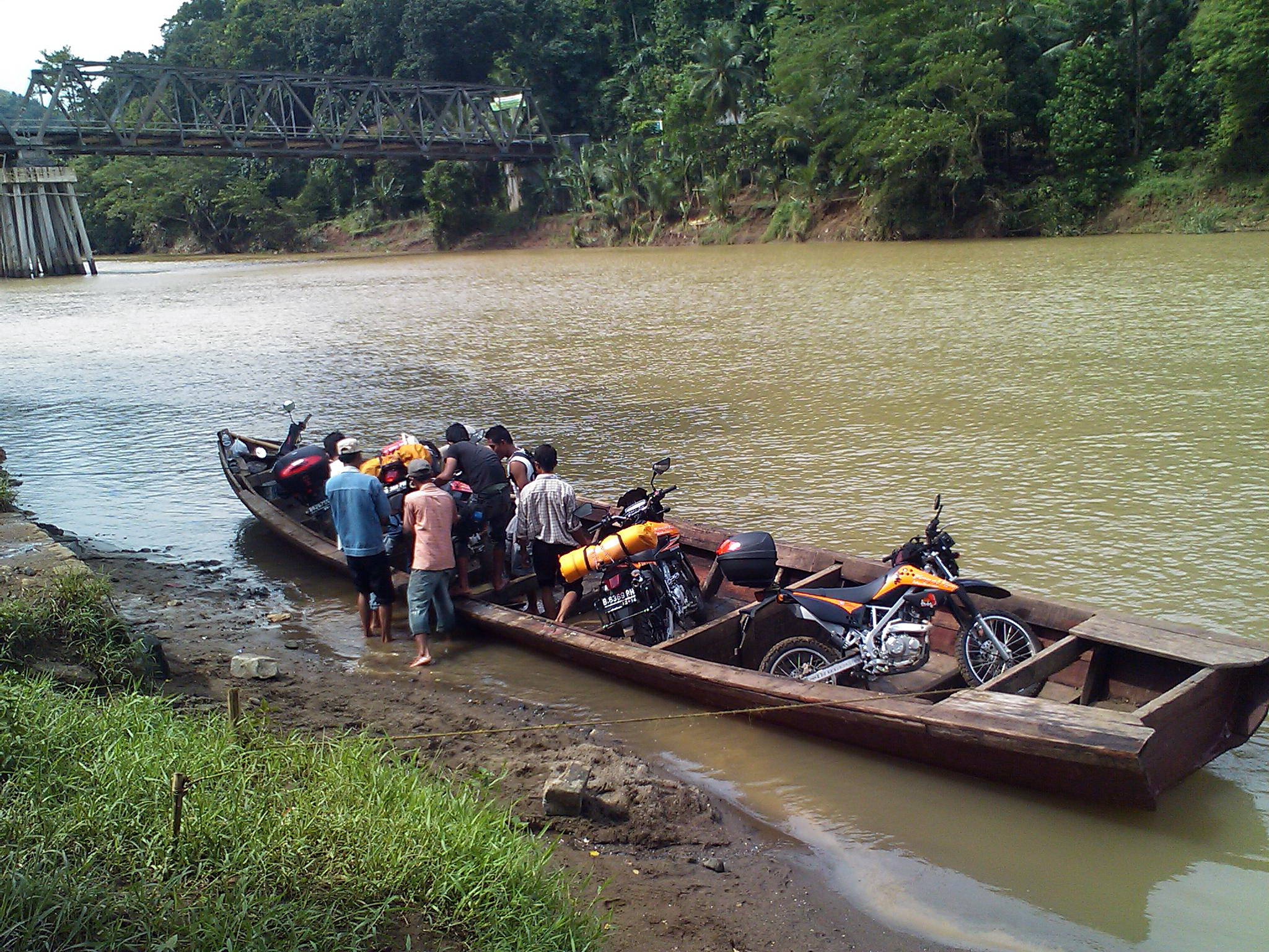 A river boat at Cikaso river - Indonesia carrying motorcycles. River transports are common in the area.